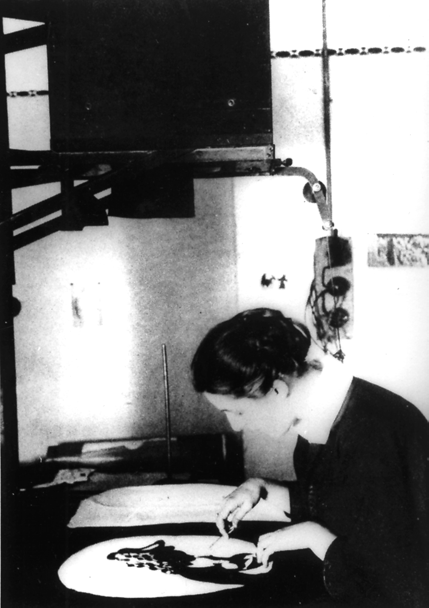 The German pioneer of silhouette animation film: Lotte Reiniger